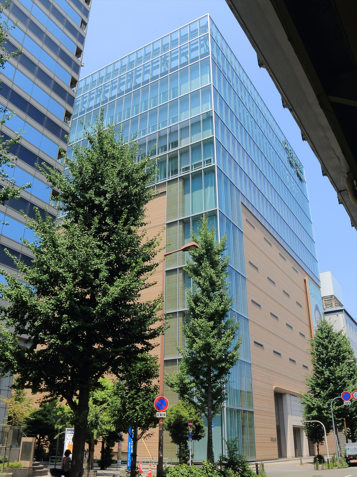 Headquarter of Sawai Pharmaceutical. Yodogawa-ku, Osaka.